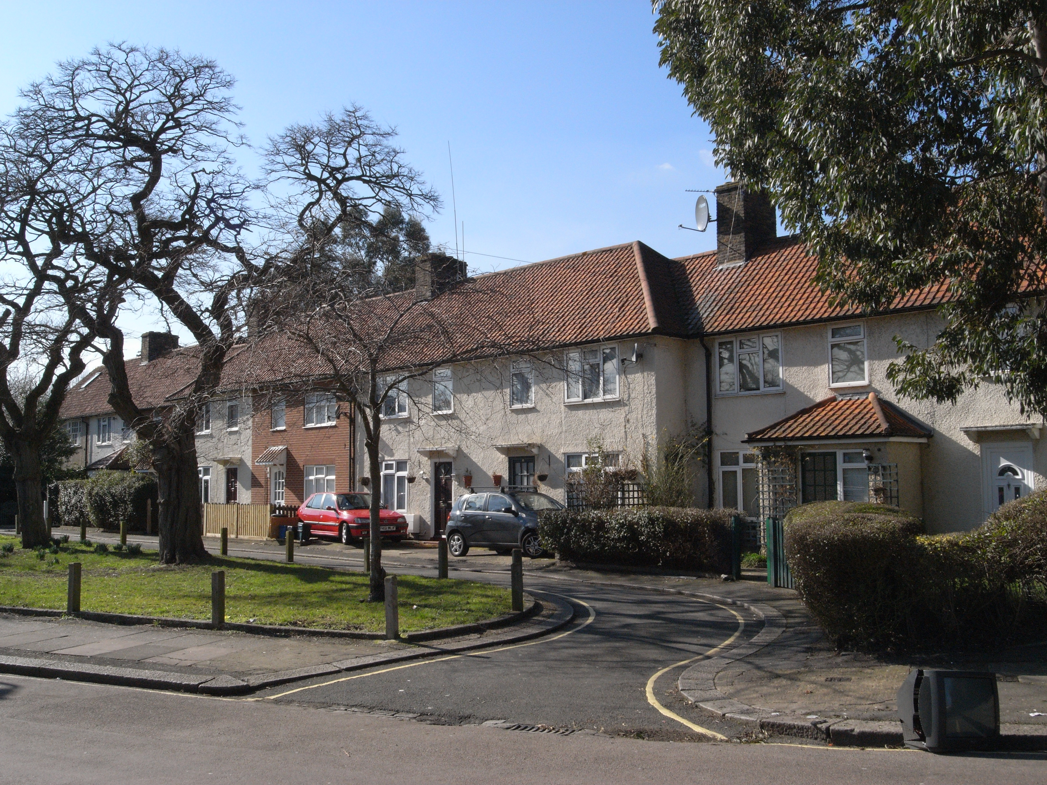 Cottage-style houses in Castelnau Estate, Barnes, London